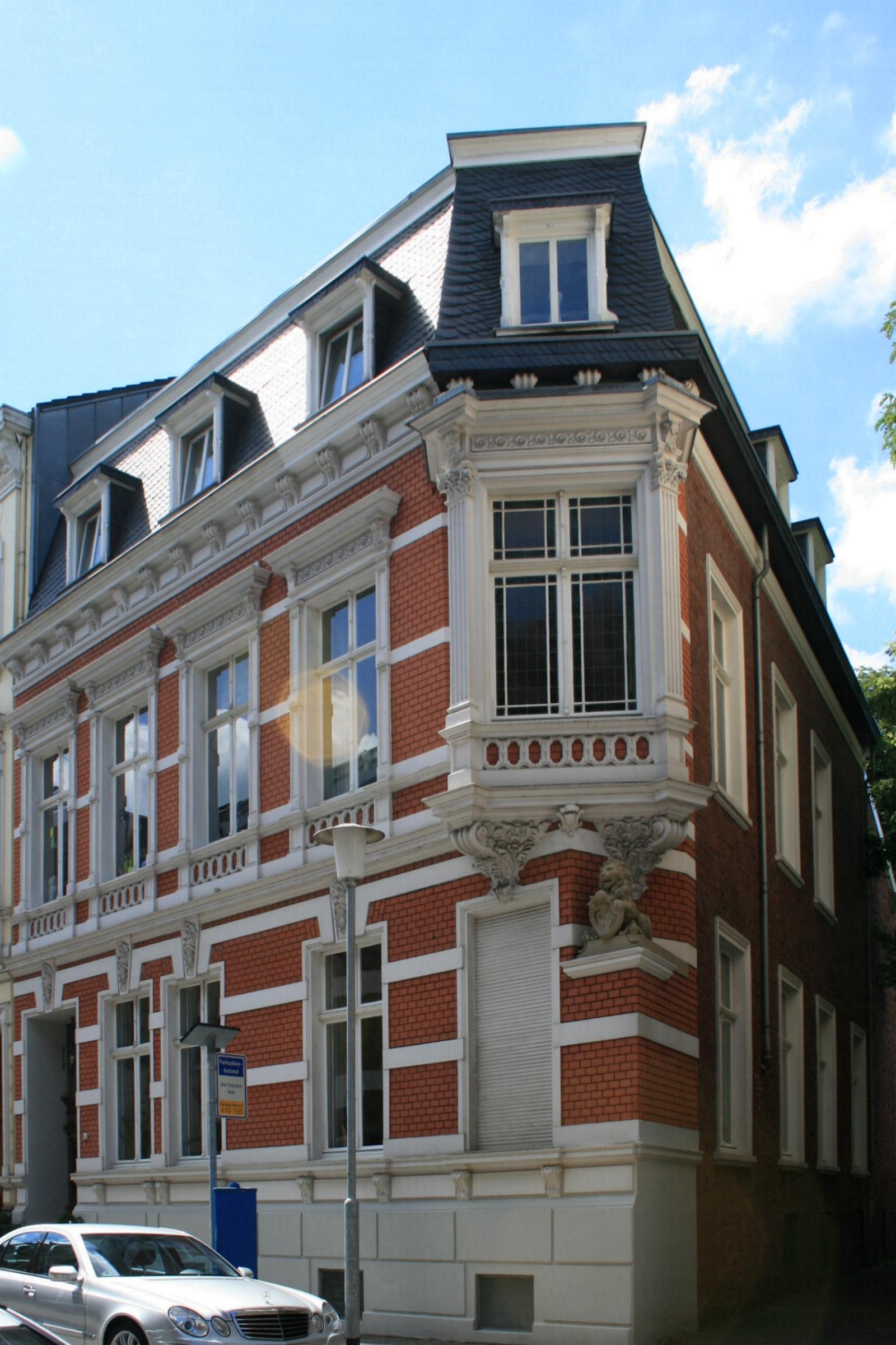 Cultural heritage monument No. A 032 in Mönchengladbach